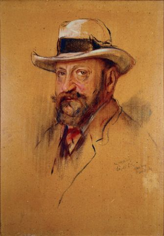 Portrait of Sir Ernest Cassel